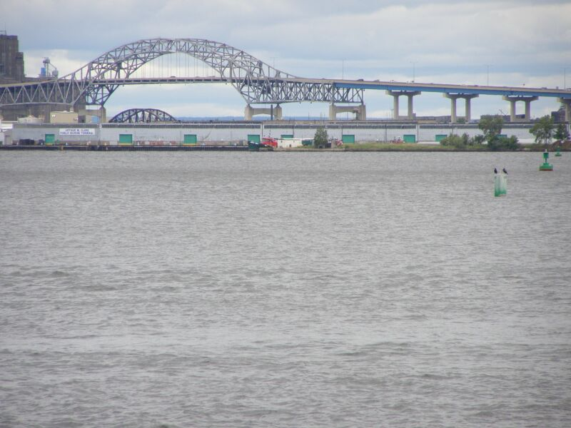 John A. Blatnik Bridge, central arch